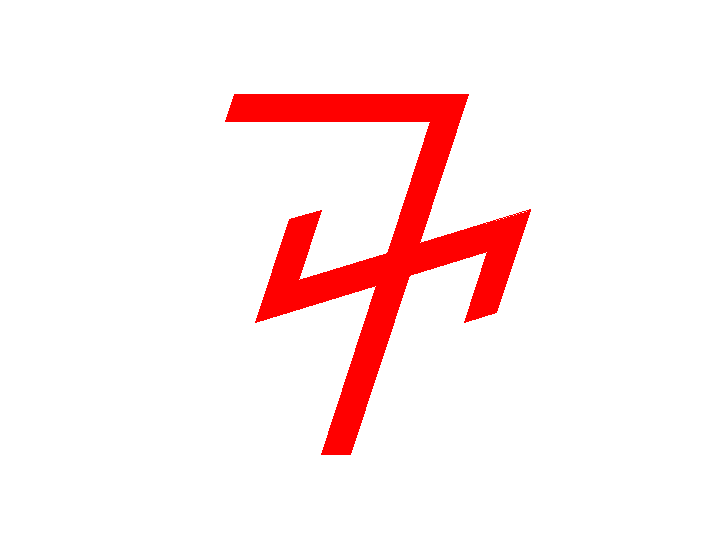 Mark of German 15 Panzer Division during WWII - Variant